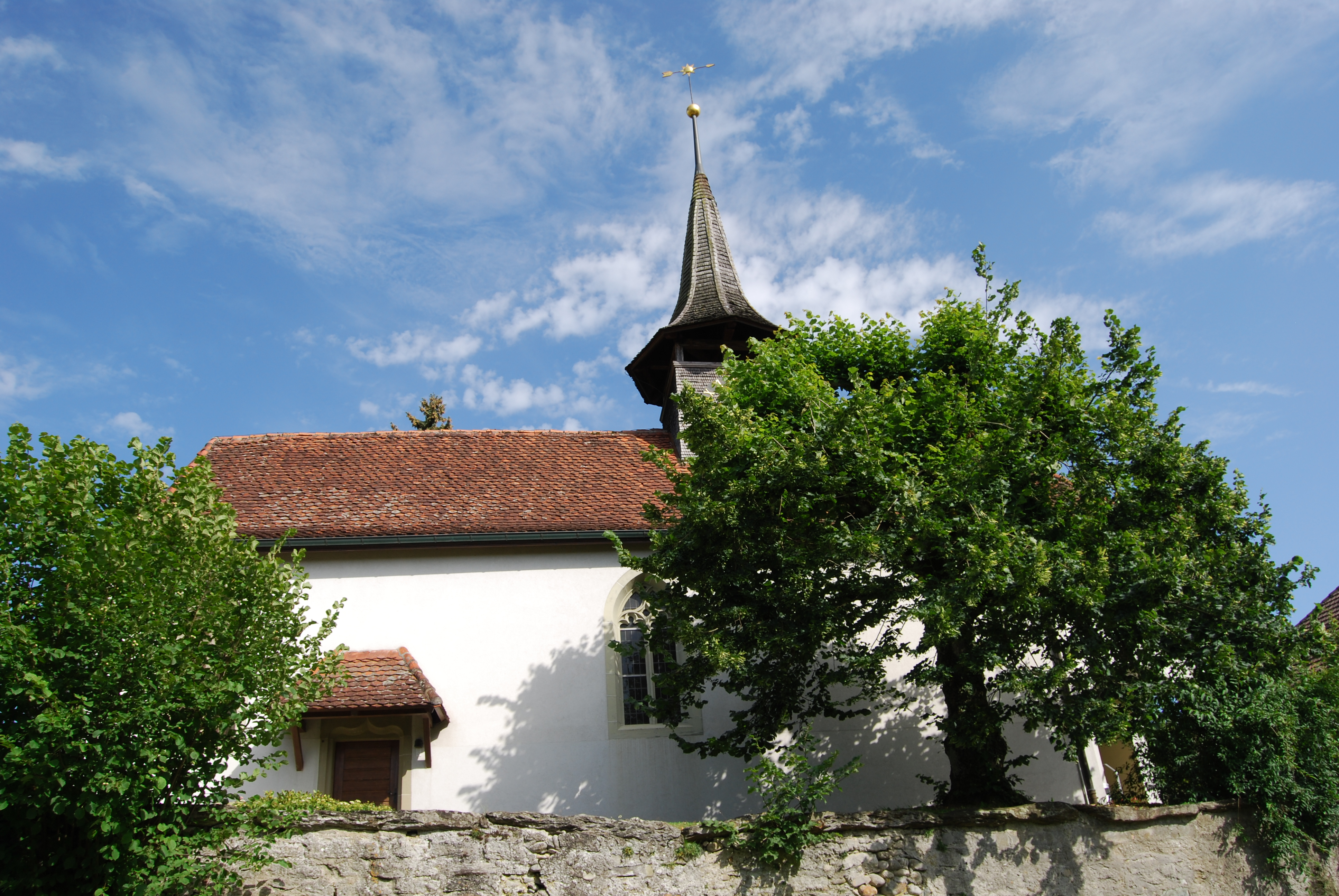 Church of Kallnach, canton of Bern, Switzerland